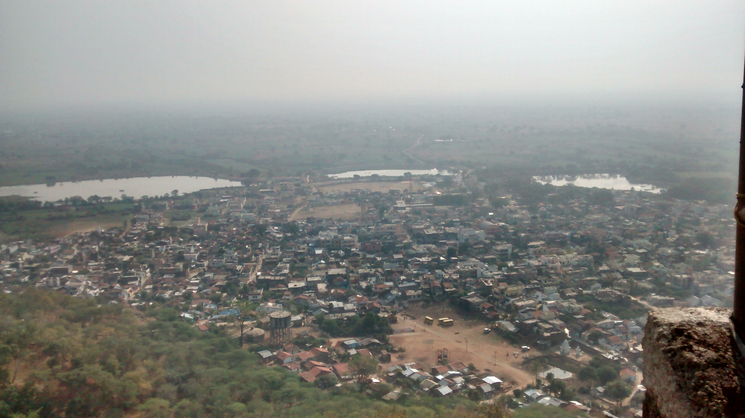 View of Ramtek city